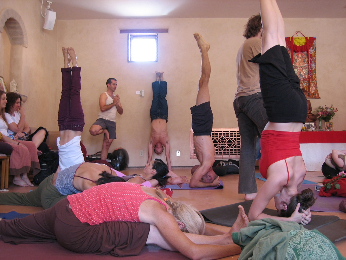 People in various yoga asanas. Original title and description: "AsanAthon 2" Participants in Diamond Mountain's first AsanAthon.